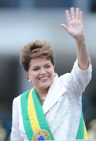 President of Brazil Dilma Rousseff wearing the presidential sash.